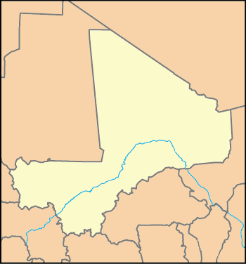 locator map of Mali